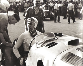 Entry #36[1] (or #86[2]) at Circuito delle Cascine in Firenze on 20 July 1947 was Franco Cortese in the 1947 Ferrari 125 S s/n 02C. The mechanic wearing a beret looks like Bazzi